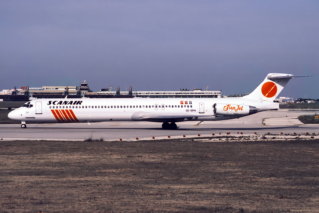 Scanair McDonnell Douglas MD-83 SE-DPH at Faro Airport